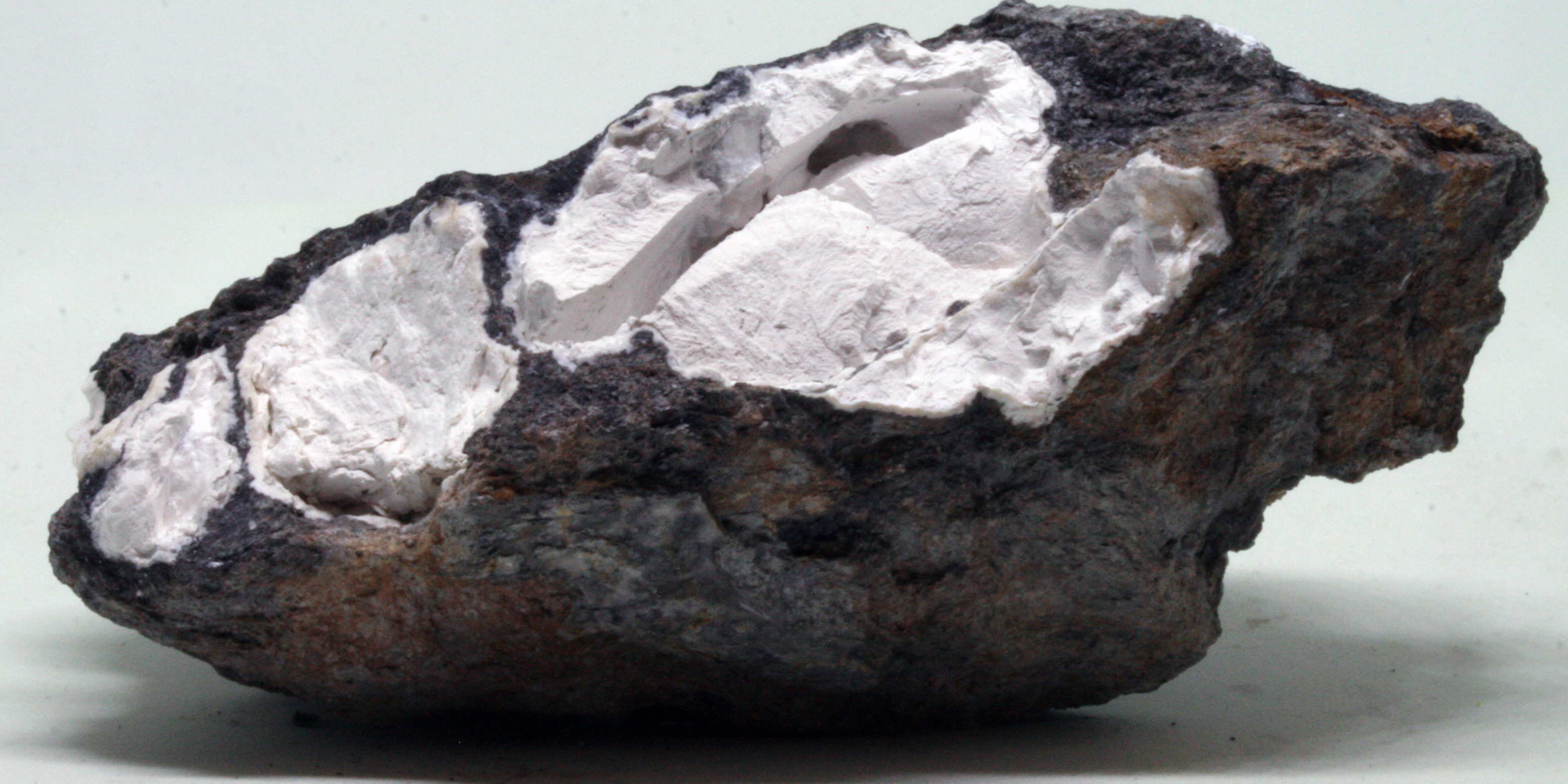 Huntite nodules. Turó de Montcada quarry, Montcada y Reixac, Barcelona, Spain